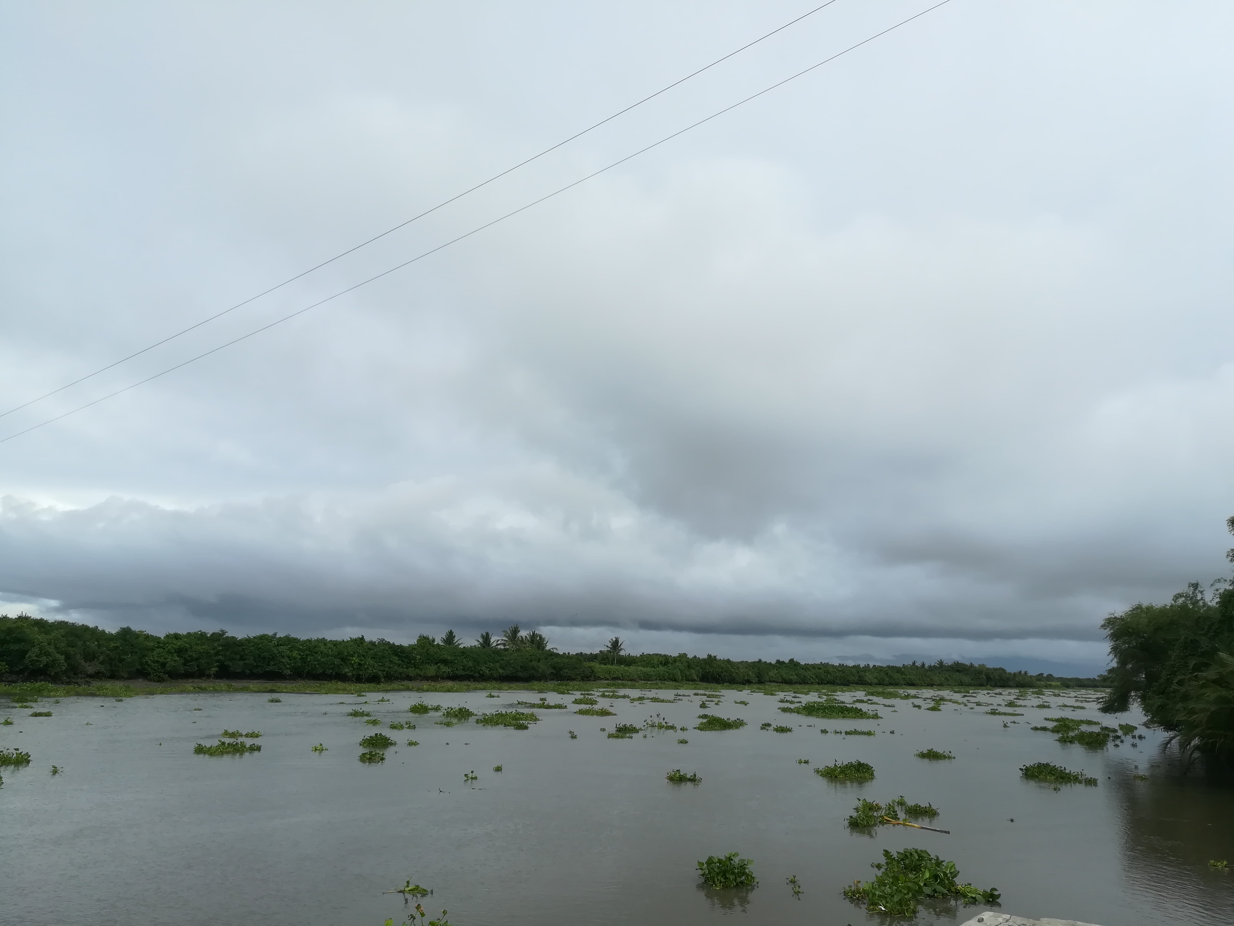 Bicol River at Canaman View